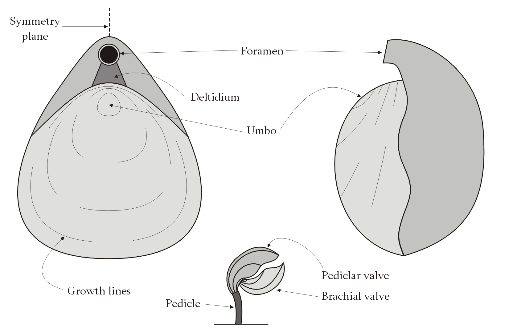 Morphology of a brachiopod shell. Drawn by Muriel Gottrop in May 2005.